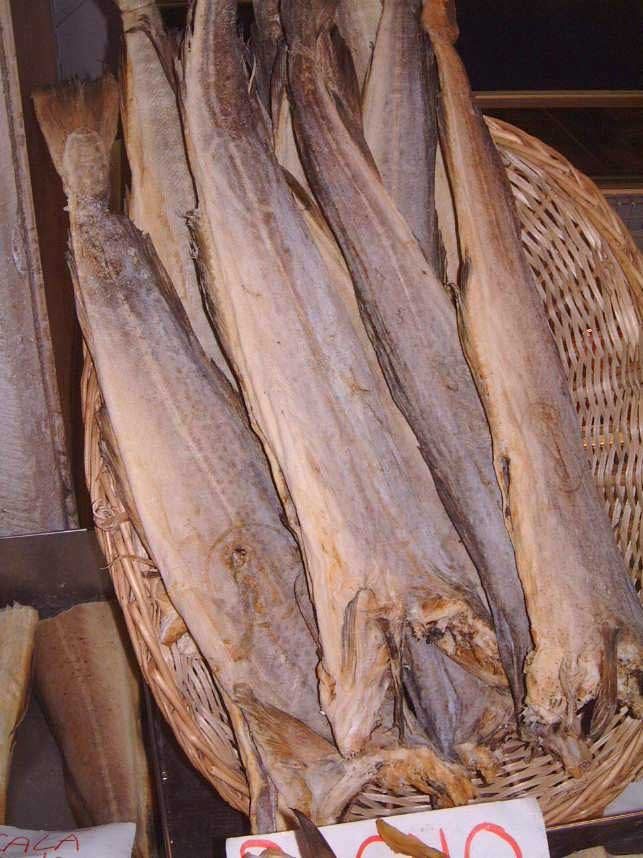 Dried Cabillard